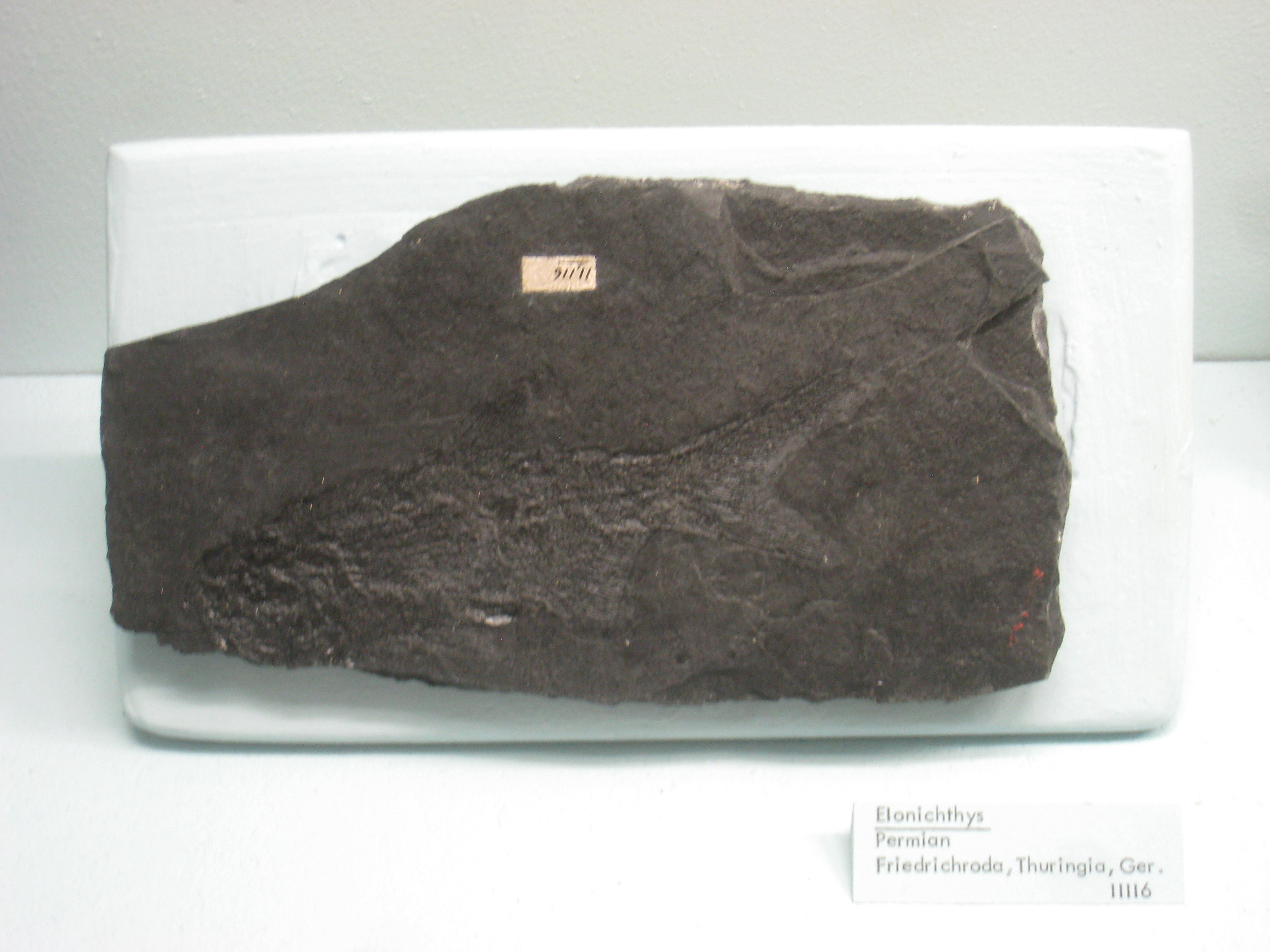 Elonichthys. Exhibit Museum of Natural History, University of Michigan, 1109 Geddes Avenue, Ann Arbor, Michigan, USA.